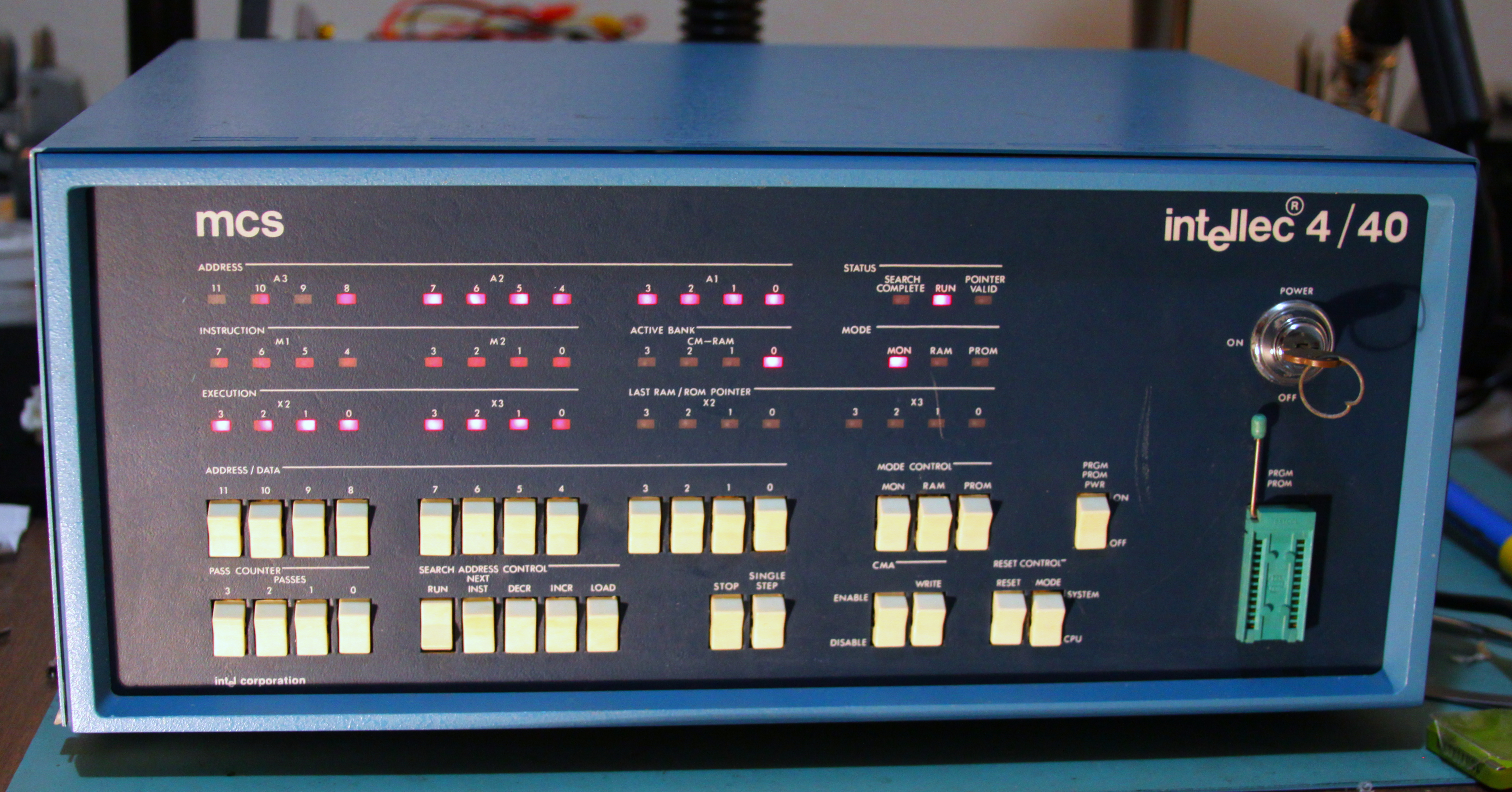 The Intel Intellec 4 MOD 40, powered up and running in monitor mode.